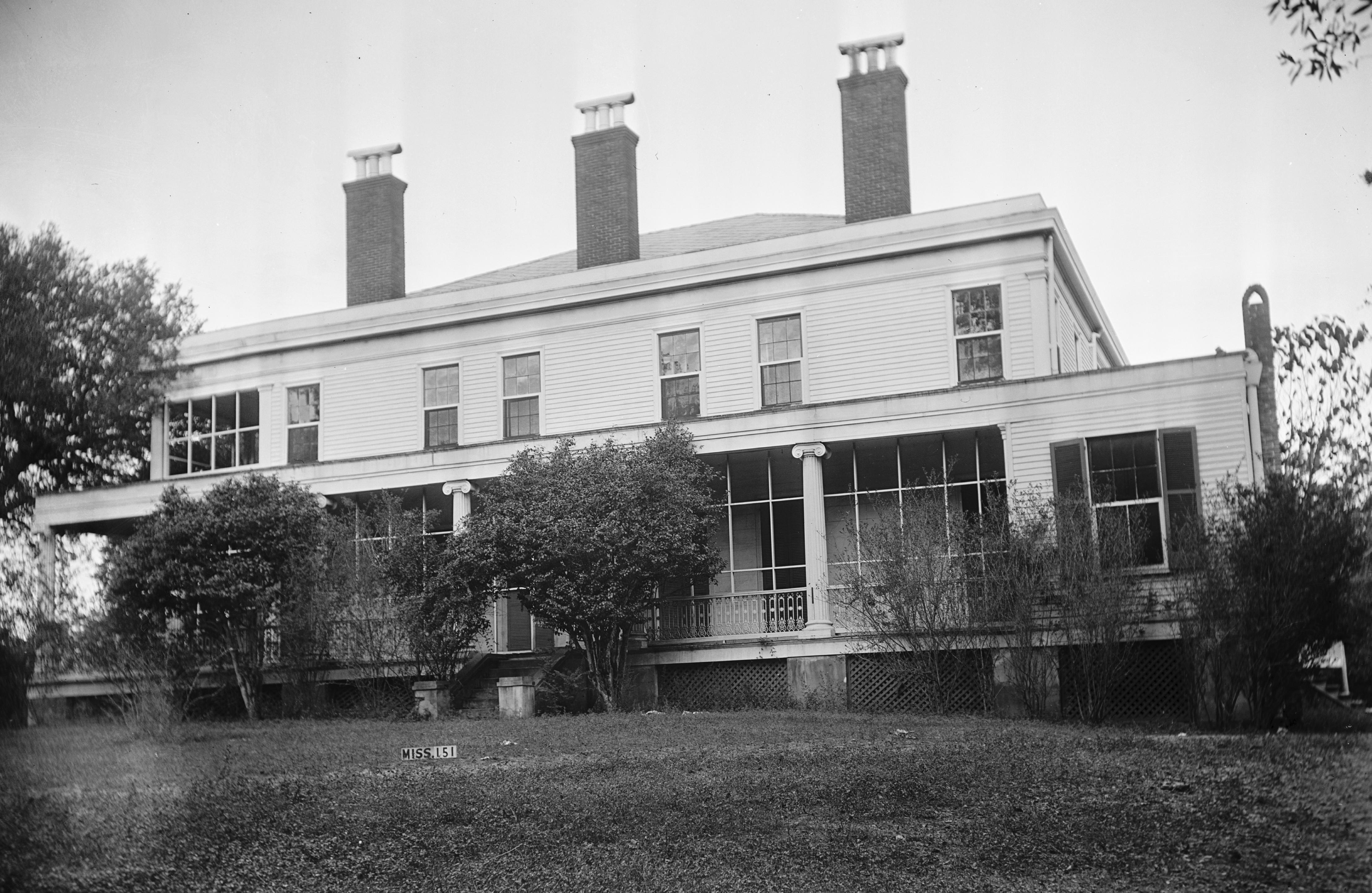 Front of Brandon Hall, located along U.S. Route 51 northeast of Washington in Adams County, Mississippi, United States. Built in 1856, it is listed on the National Register of Historic Places.